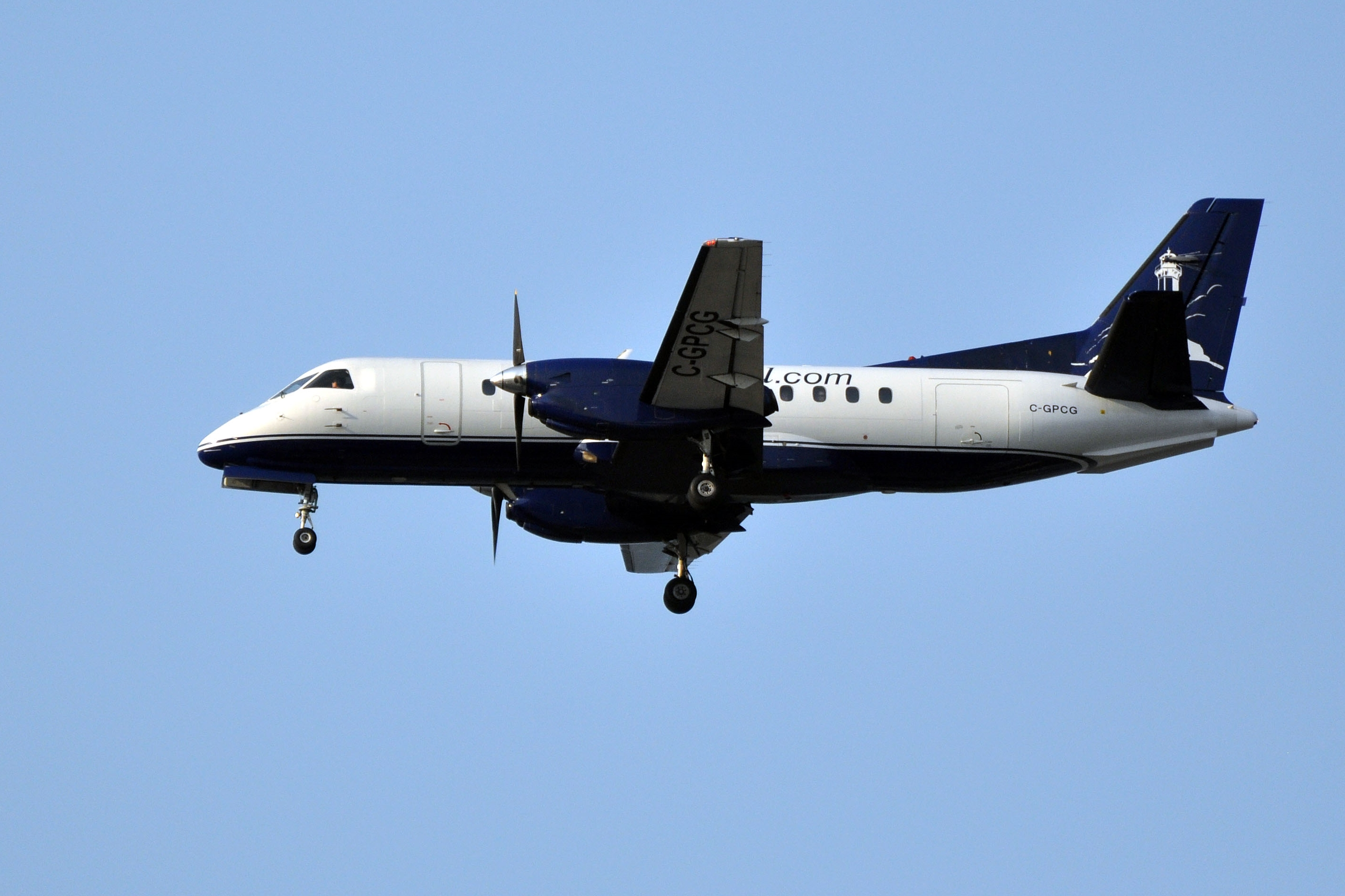 MSN 094 SAAB 340A Pacific Coastal Airlines YVR AIRPORT